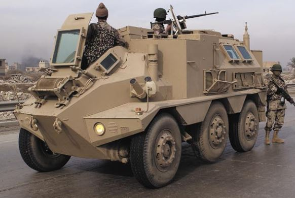 Cropped version of a previous Commons image. Panhard VCR armored personnel carrier. Cropped for a subject analysis. Limited contextual relevance to original work.